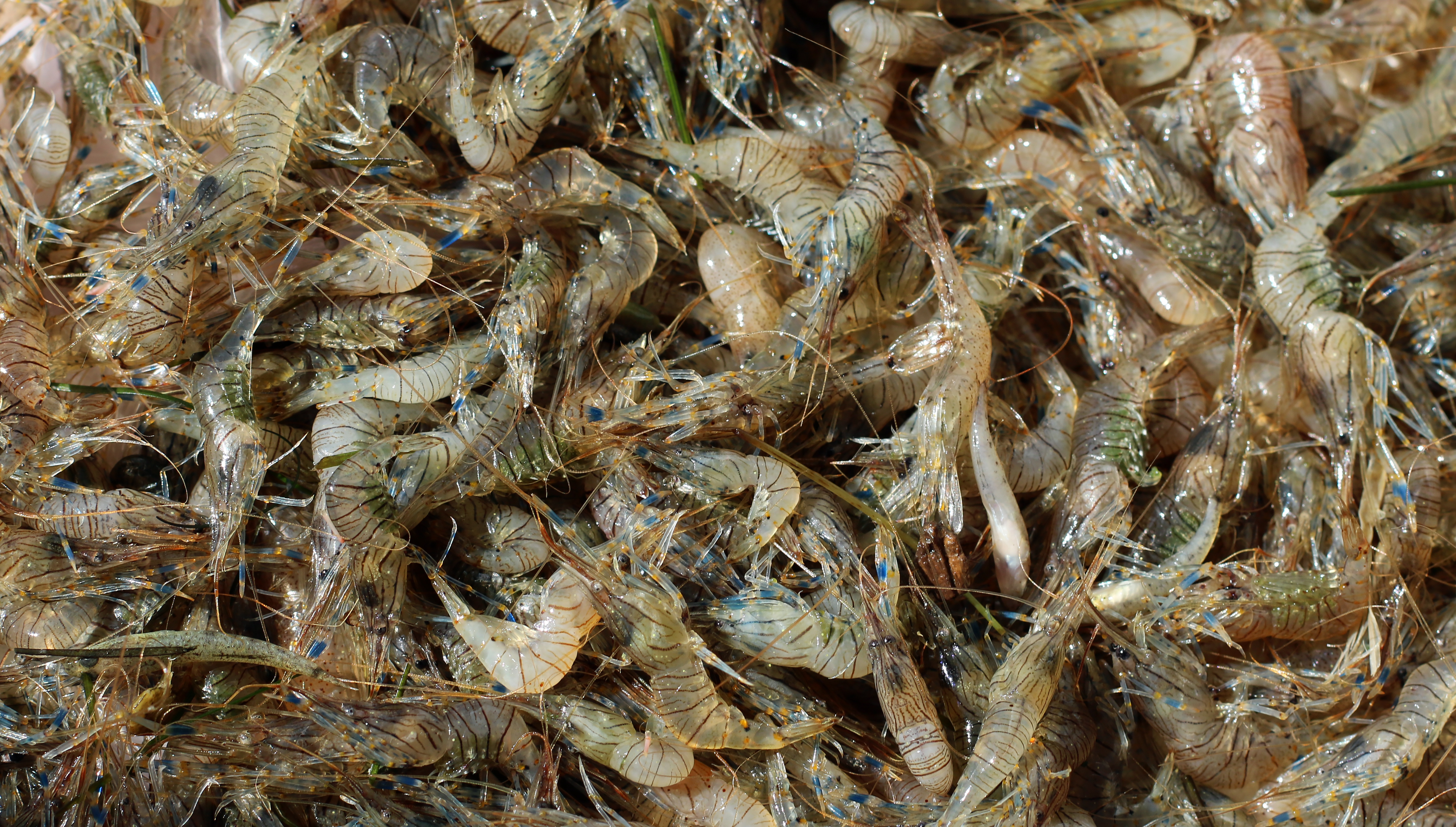 Rockpool shrimps (Palaemon elegans). Living shrimps at the fish market in Odessa, Ukraine.